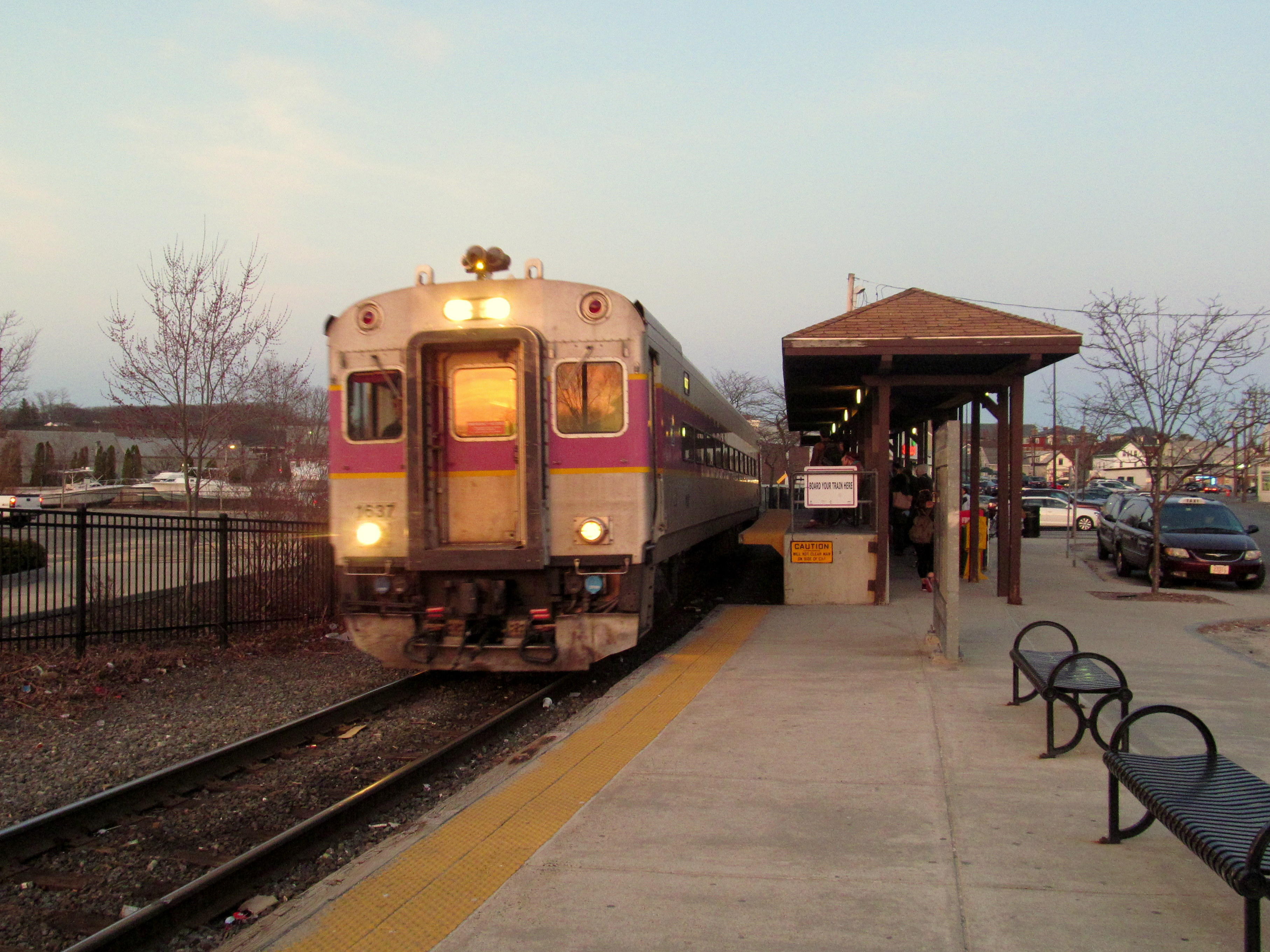 An inbound train arrives at Gloucester station in April 2014